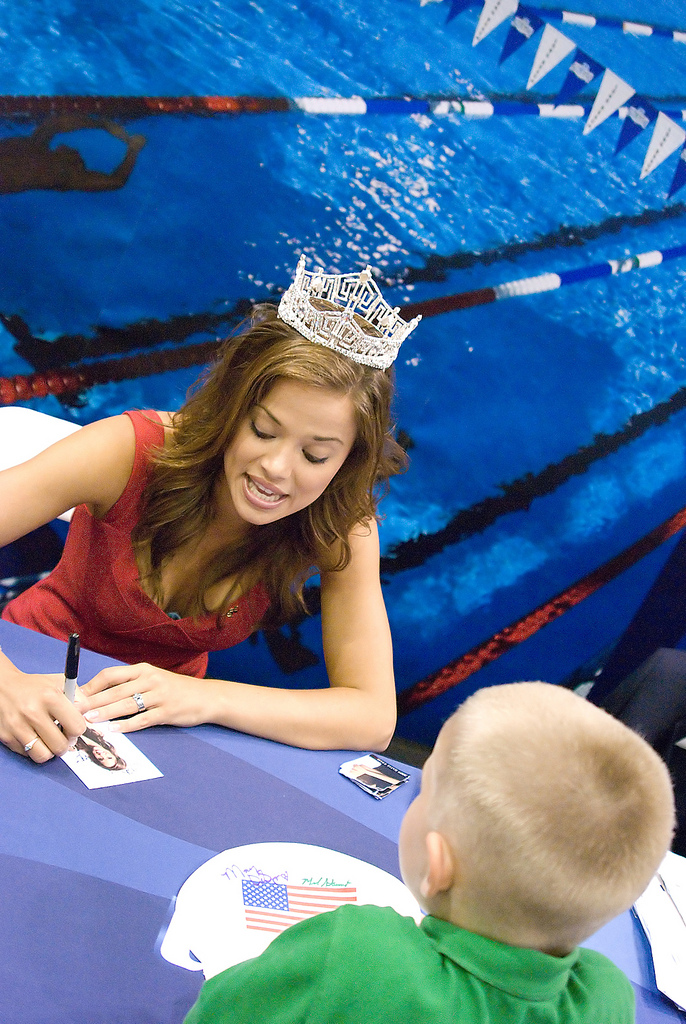 Miss America 2009 Katie Stam signing an autograph for a fan